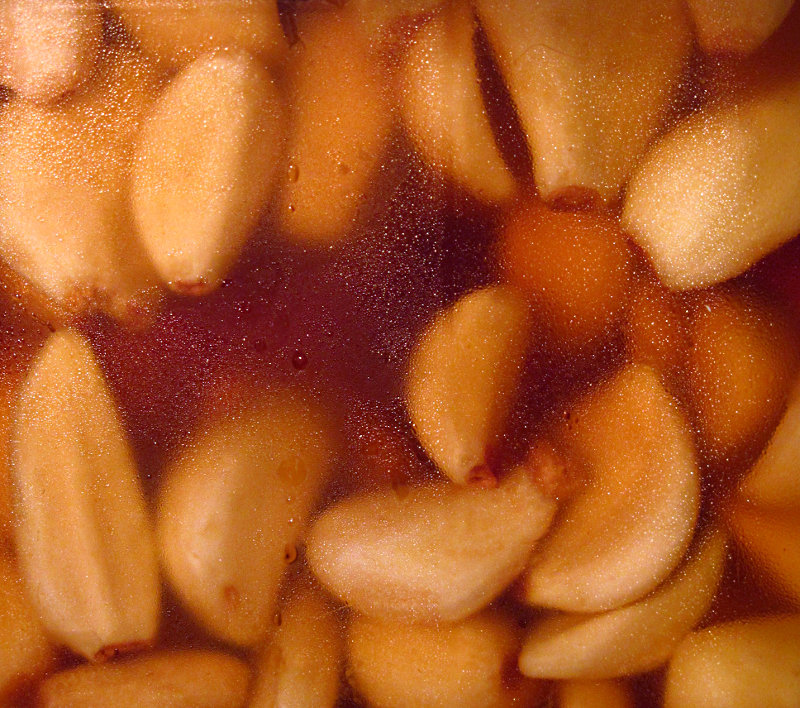 Condensation beaded on the outside of a square jar of home-pickled garlic cloves. This was the result of the jar being taken out of the refrigerator and sitting on the counter at room temperature for about ten minutes.